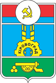 Coat of arms of Kirovohrad during Soviet period